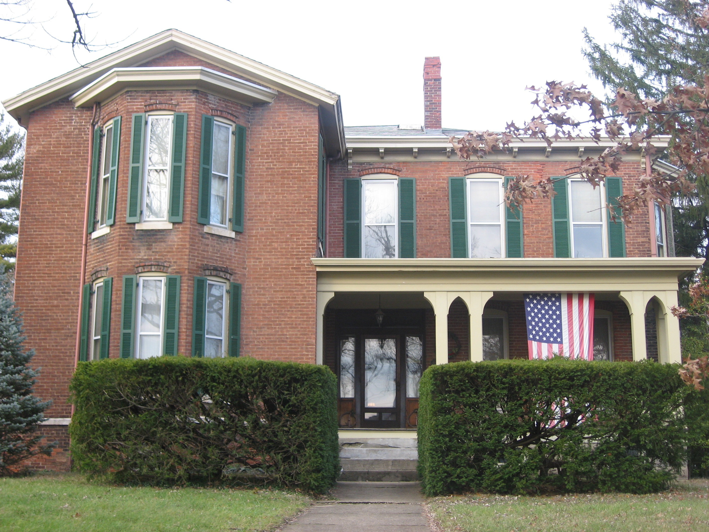 Front of the house at 90 E. Harrison Street in Martinsville, Indiana, United States. It is part of the Martinsville Northside Historic District, a historic district that is listed on the National Register of Historic Places.